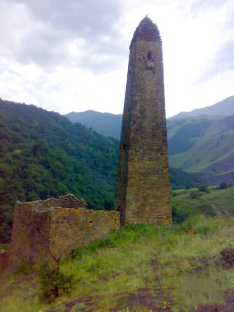 a tower in Mocara.